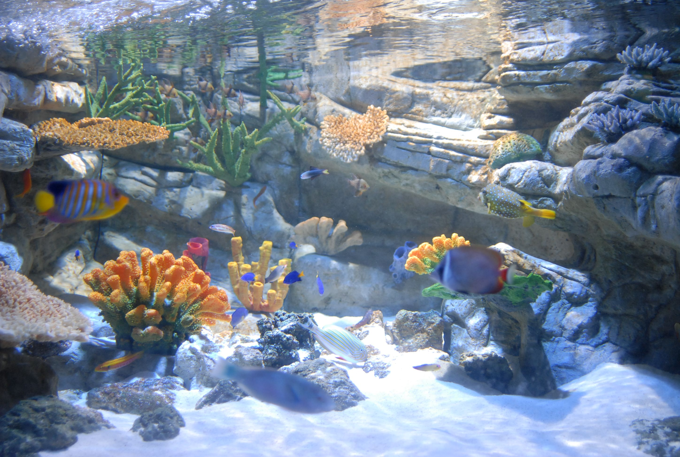 London Aquarium